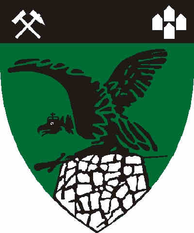 Coat of arms of Hungarian city Tatabánya